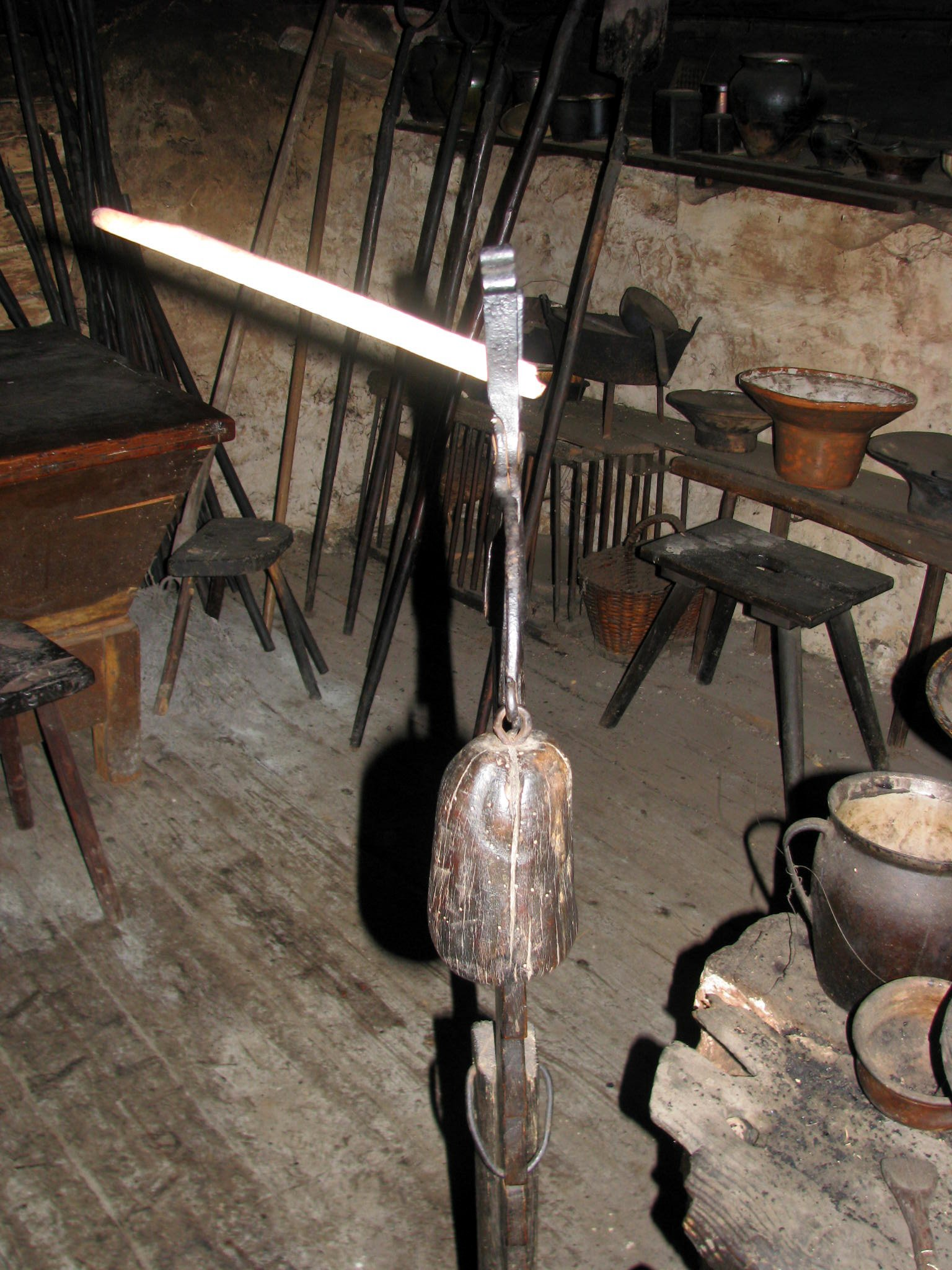 Fatwood holder, Kavčnikova domačija, Sevodnje, bei Velenje, Slovenia